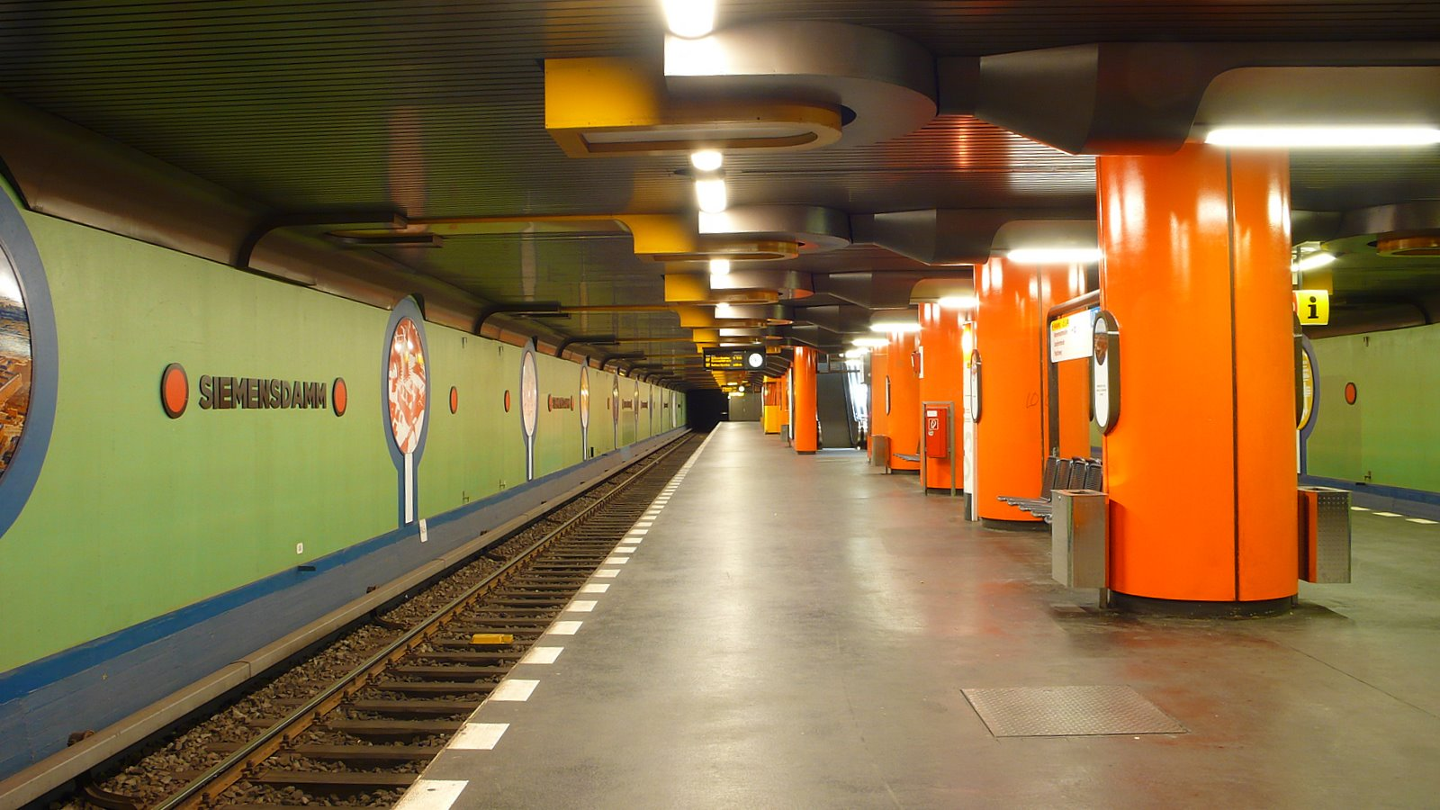 Siemensdamm subway station berlin